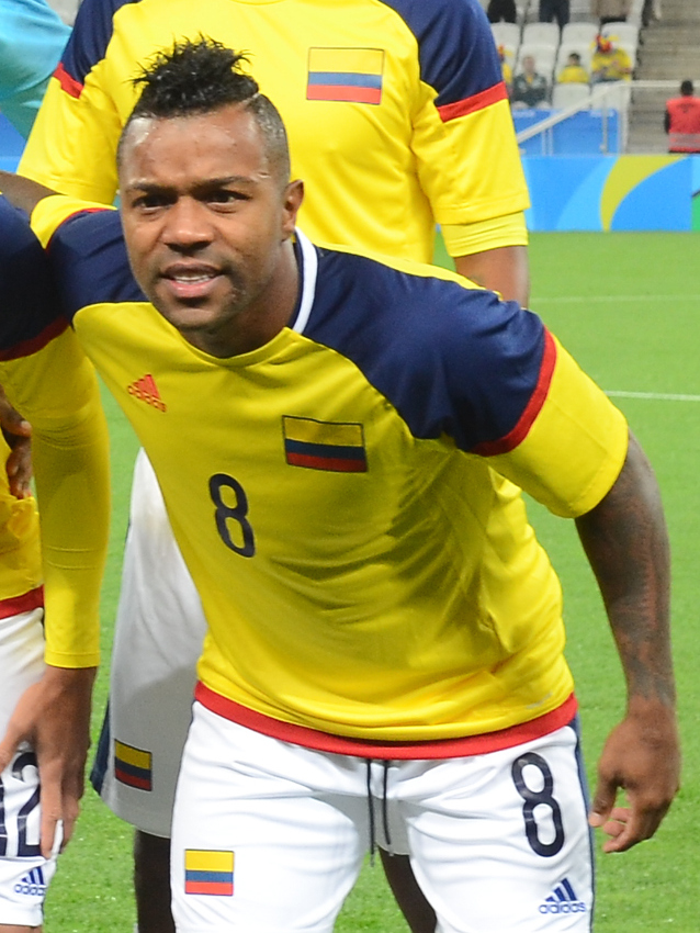 São Paulo - Colômbia vence a Nigéria por 2x0 na Arena Corinthians (Rovena Rosa/Agência Brasil)